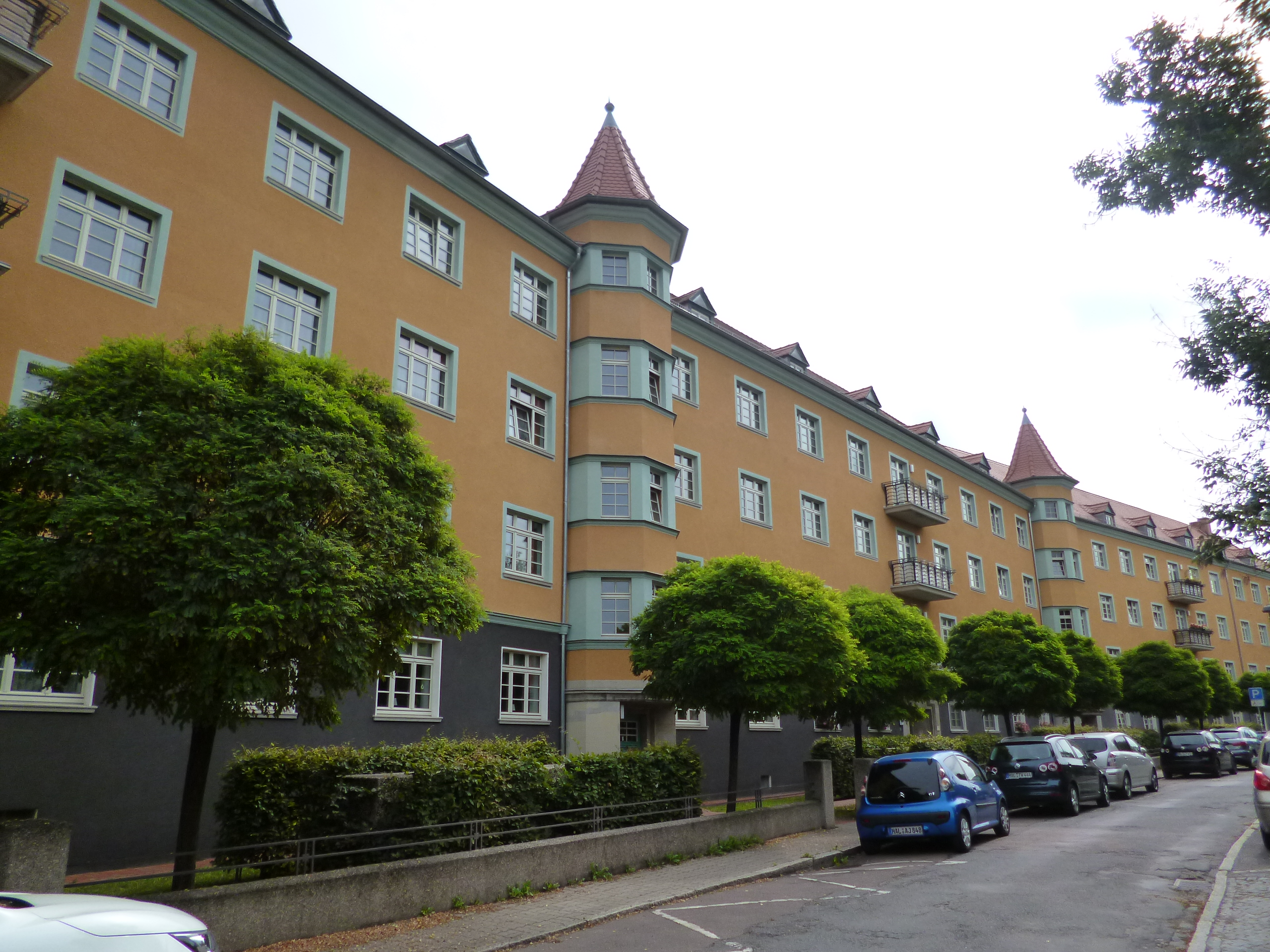 Street Vor dem Hamstertor No. 1-11, Halle (Saale), built in 1927/1928, architect Heinrich Faller